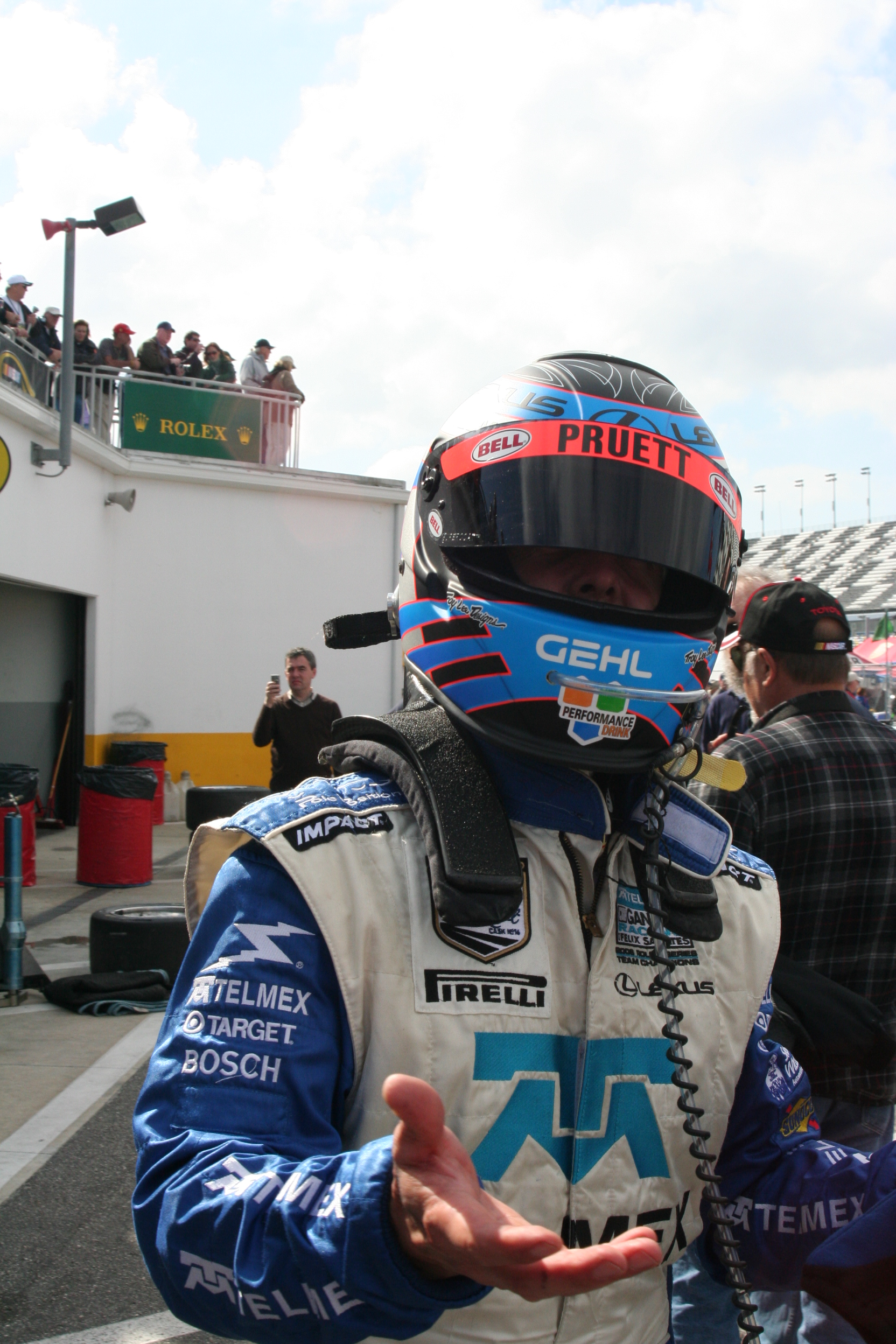 Scott Pruett, shot by "The Daredevil" at the 2008 Rolex 24 Hours of Daytona event